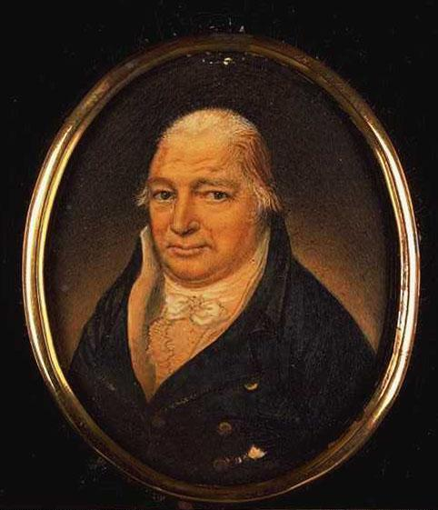 This is an image of an 8 x 6.5 cm watercolour image of Sir Joseph Banks, circa 1812.